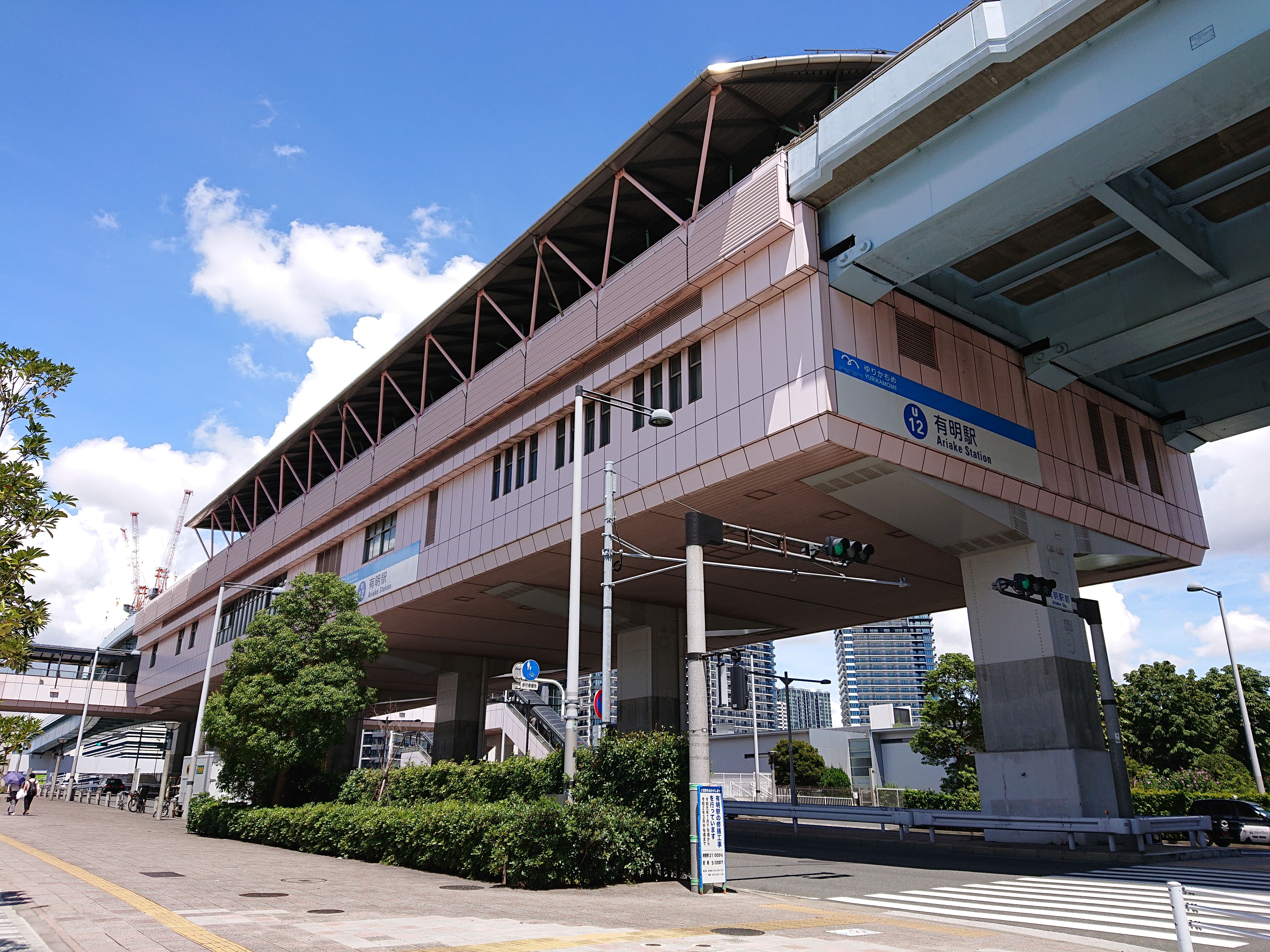 Ariake Station (有明駅), located at 3-7-5 Ariake, Koto, Tokyo, Japan